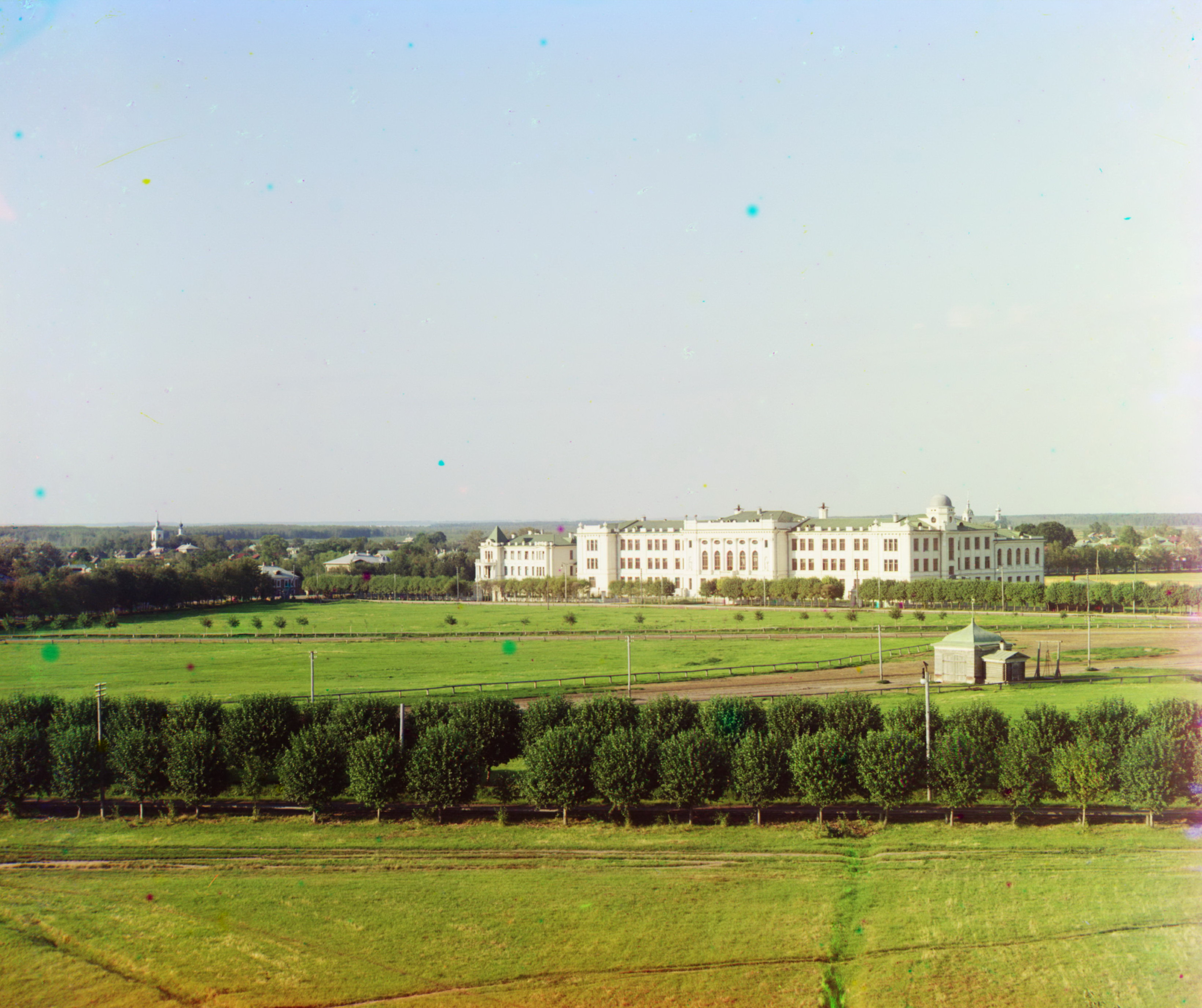 Kekin's Gymnasium (1910). View from the bell tower of the Church of All Saints.